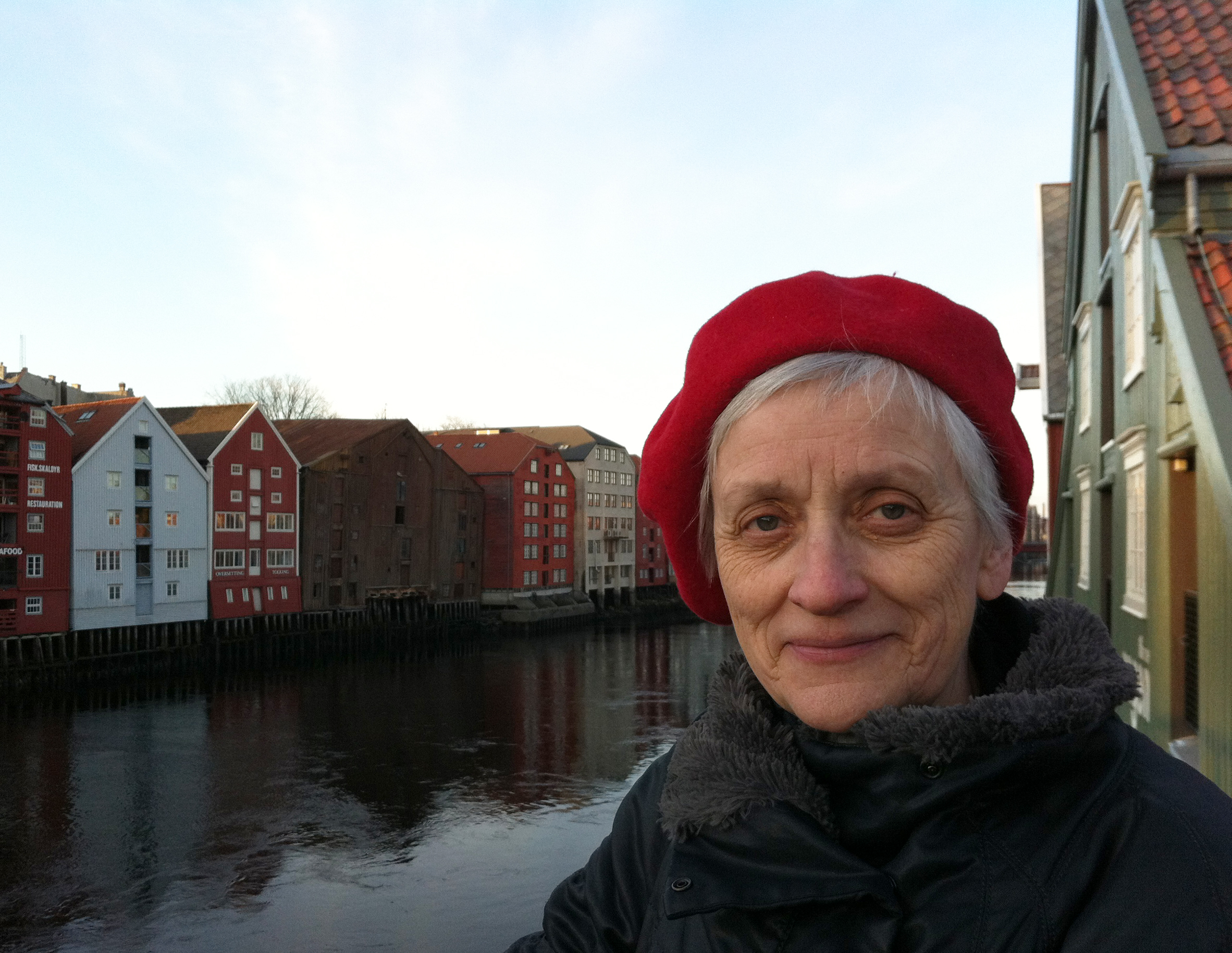 Portrait of the Norwegian author, professor Sissel Lie, standing on the old town bridge in Trondheim, Norway